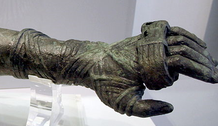 Leather hand wraps on an arm found in the Antikythera shipwreck. The arm is currently located in the National Archaeological Museum in Athens. This is a cropped image, taken from a photograph of the whole arm. The original photograph was by user Giovanni Dall'Orto and called: File:0135 - Archaeological Museum, Athens - Arm fron the Antikythera shipwreck - Photo by Giovanni Dall'Orto,.jpg. The license stated was 'Attribution'.